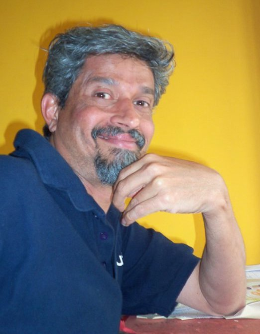 Prakash Shetty (Cartoonist). Photo taken at his house in Bangalore.